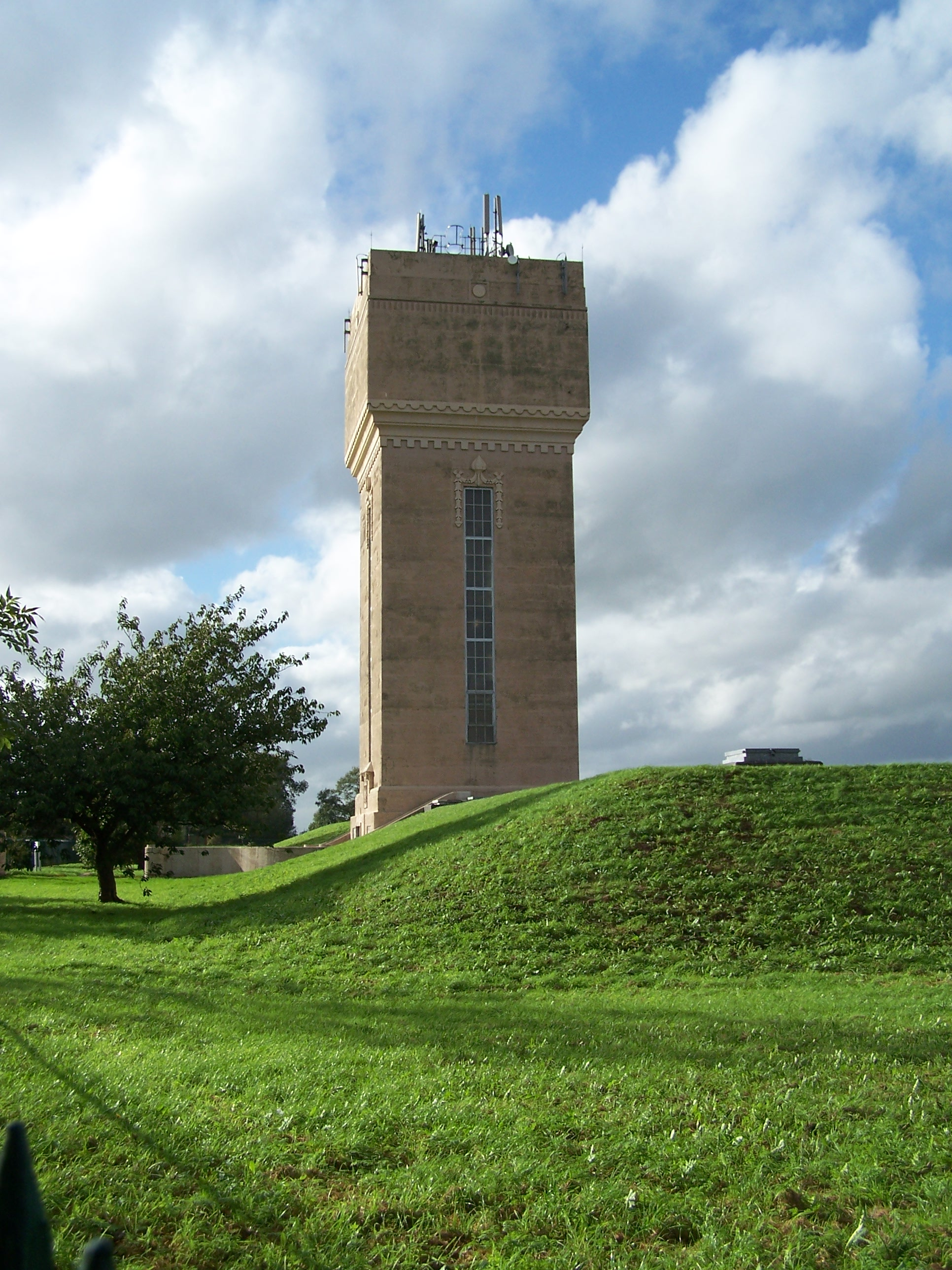 Brick-built water tower in Kimberley, Nottinghamshire, UK